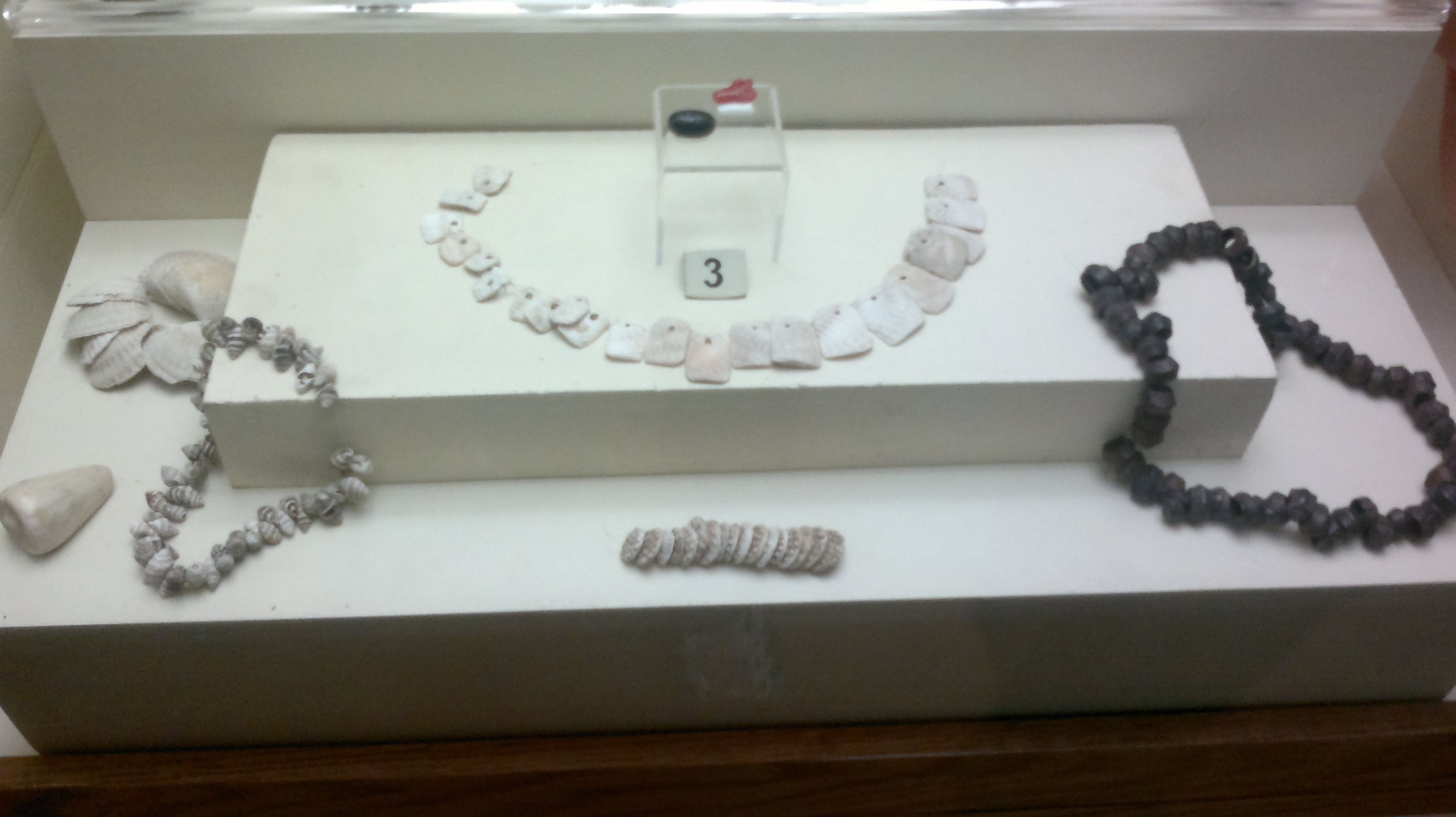 Horse-headed agate beads with cuneiforms from Khojaly. Late Bronze - Early Iron Ages. Museum of History of Azerbaijan, Baku.